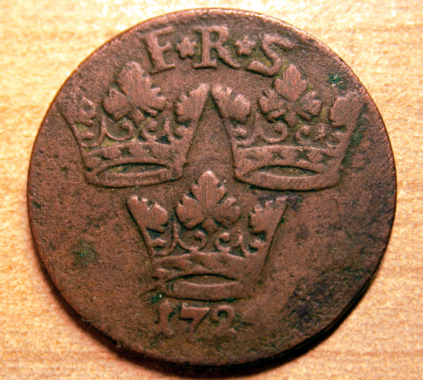 1 öre kopparmynt 1724. A Swedish coin.